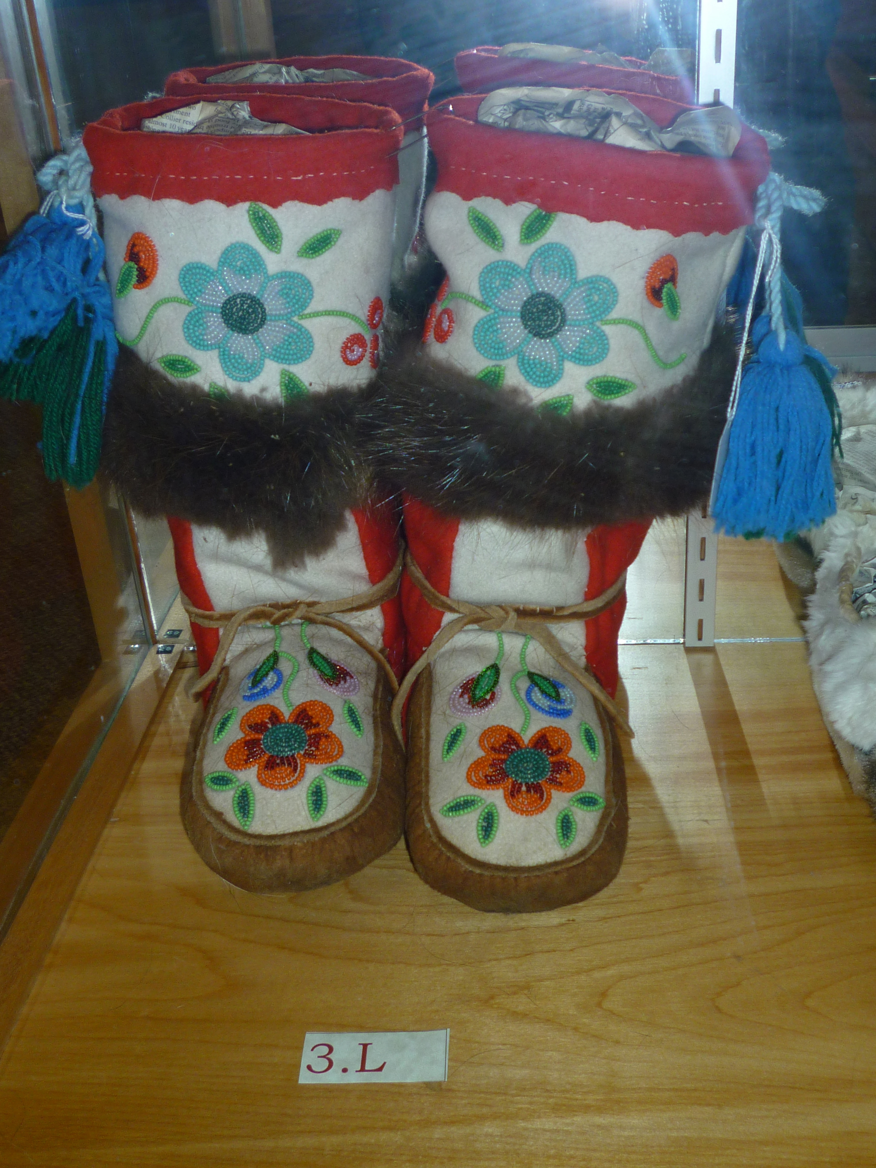 Felt mukluks with deerskin foot. Holt Museum, Traveler's Rest State Park Visitors' Center, Lolo, Montana